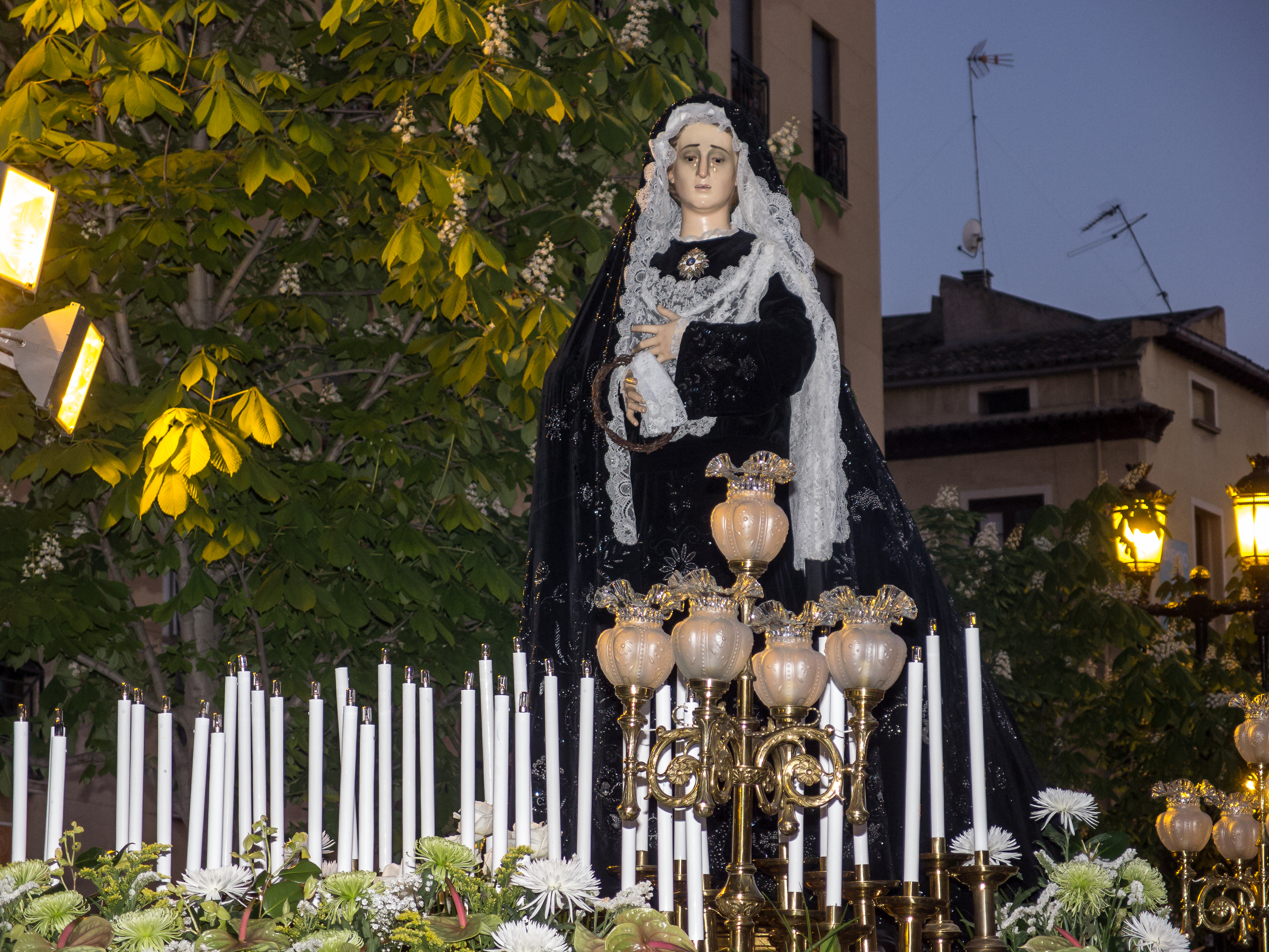 OLYMPUS DIGITAL CAMERA This is a photography of a Folklore festival in Spain (Wikidata id Q9075892).